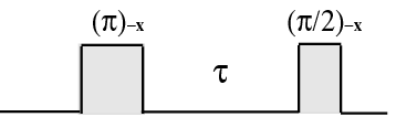 Pulso inversão recuperação, método par medir T1